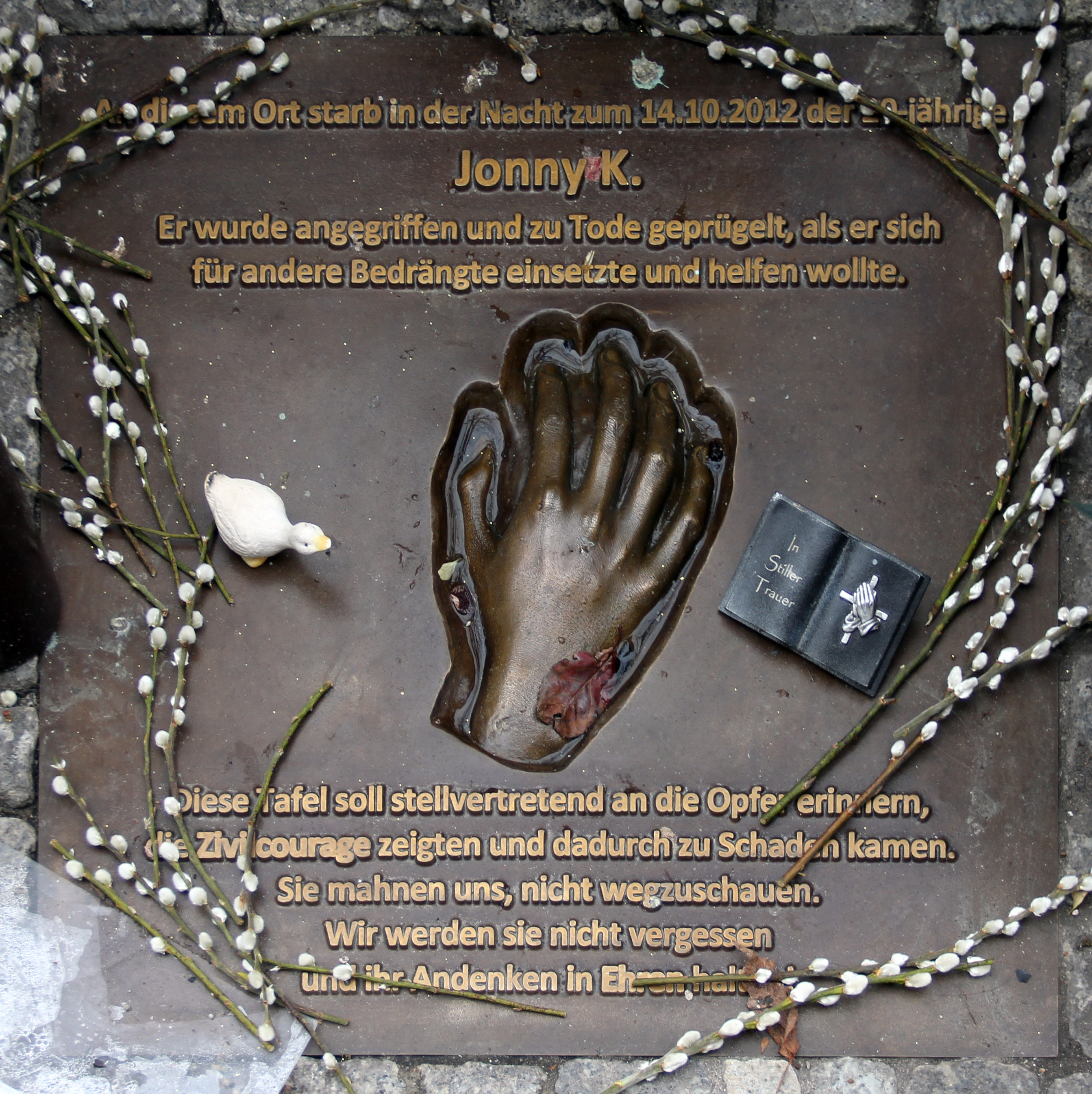 Memorial plaque, Jonny K., Rathausstraße 13, Berlin-Mitte, Germany